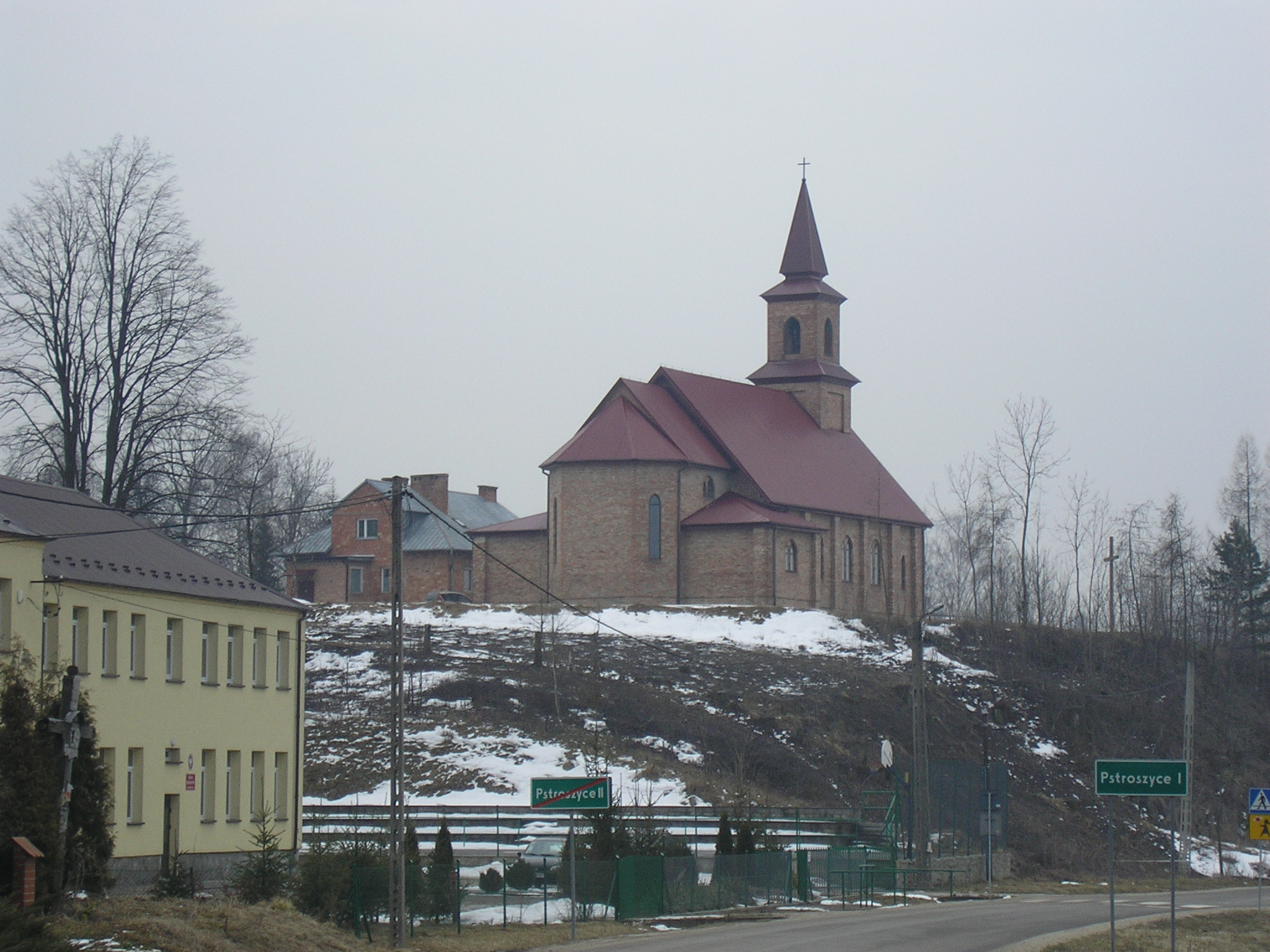 Church of St. Jadwiga in Pstroszyce Pierwsze